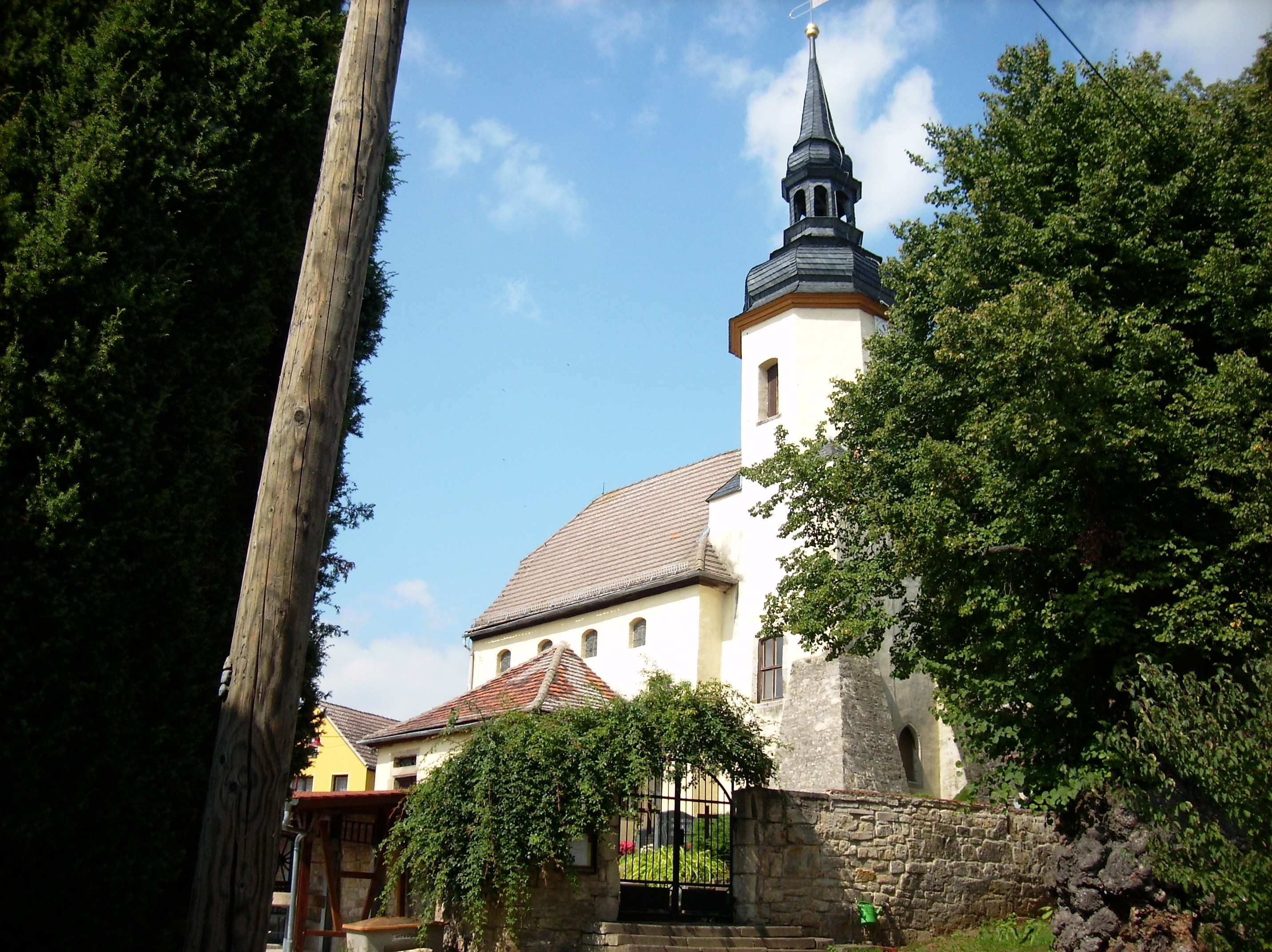 Church of the village of Boblas (Naumburg, district of Burgenlandkreis, Saxony-Anhalt)